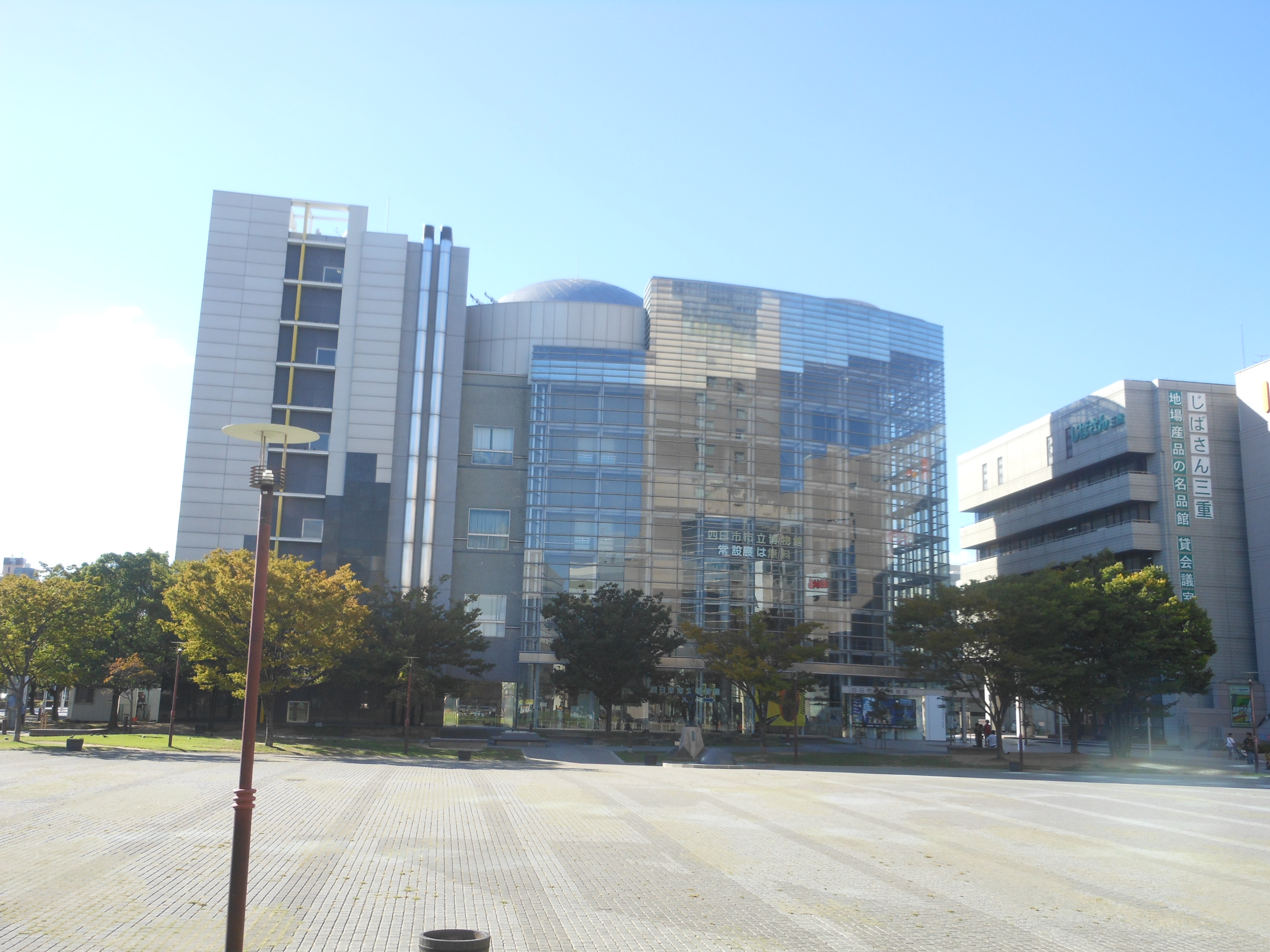 This is Yokkaichi Municipal Museum in Yokkaichi, Mie, Japan.